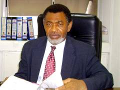 Photo taken of Chief Dr. Walter Ofonagoro in his office at Stanwal Securities Limited